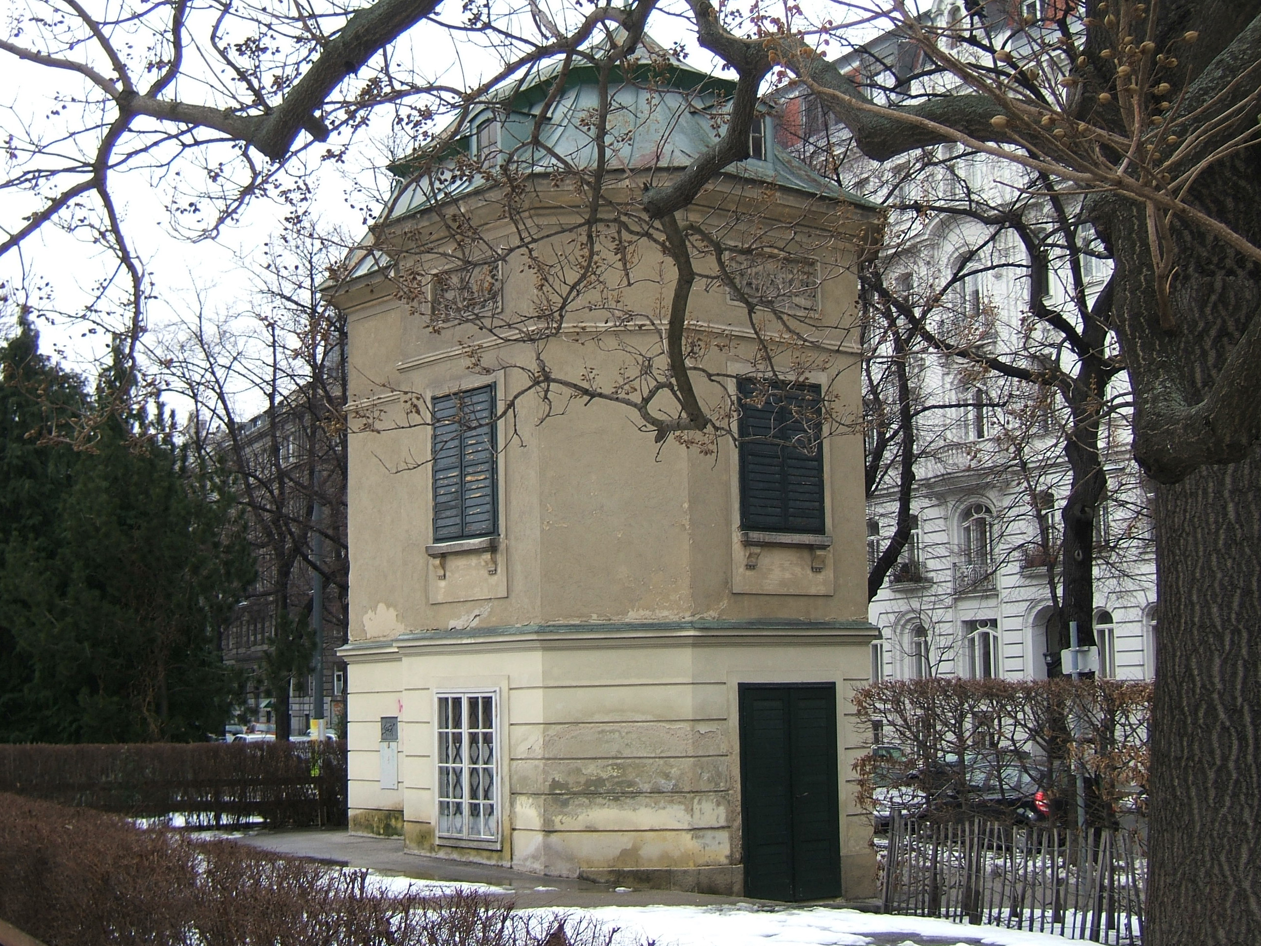 Pavilion in the Arenbergpark in Vienna, 3rd district. Remaining building of the former palais Esterházy.